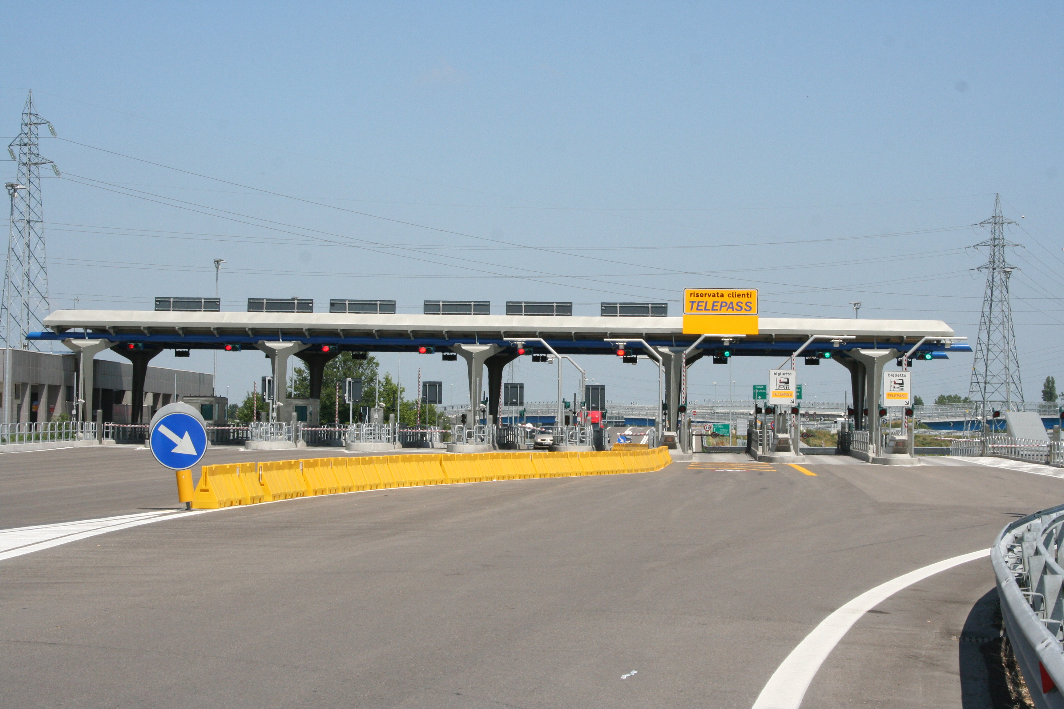 The highway access called "Campegine - Terre di Canossa" in Campegine, Reggio Emilia (Italy)